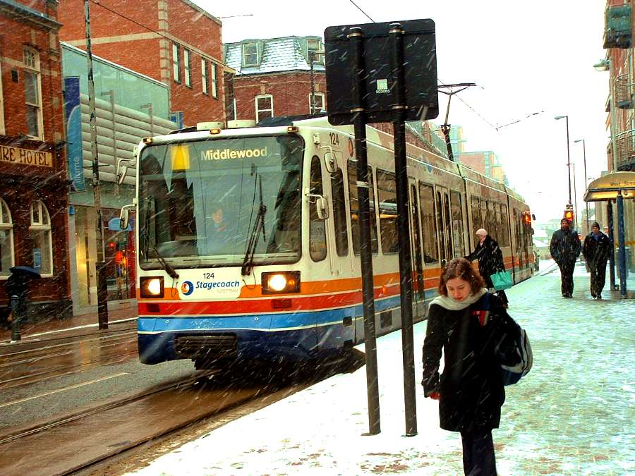 Picture shot by Lukacs at West Street in Sheffield in 2004.